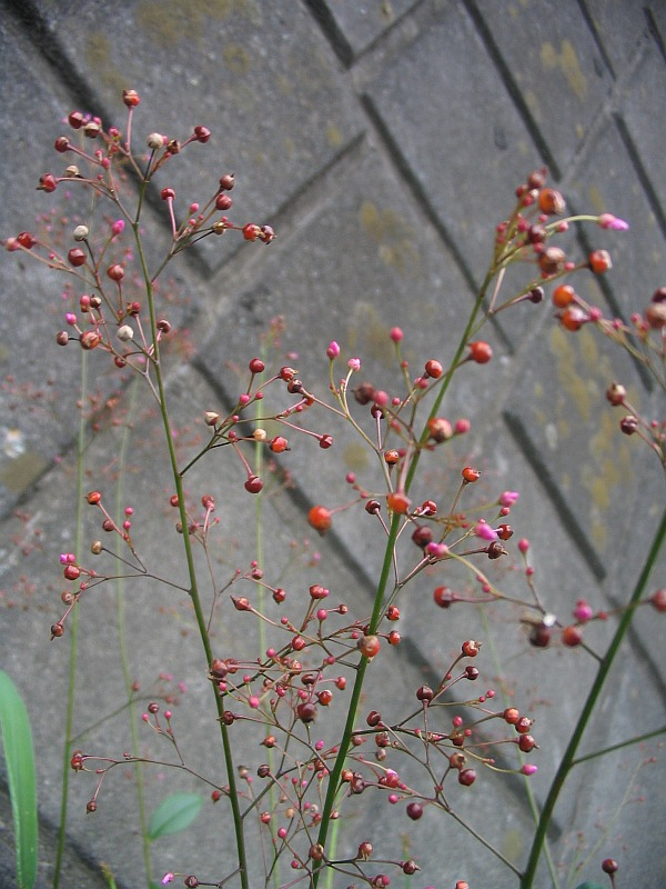 Photograph of Talinum crassifolium, taken in Machida city, Tokyo, Japan.